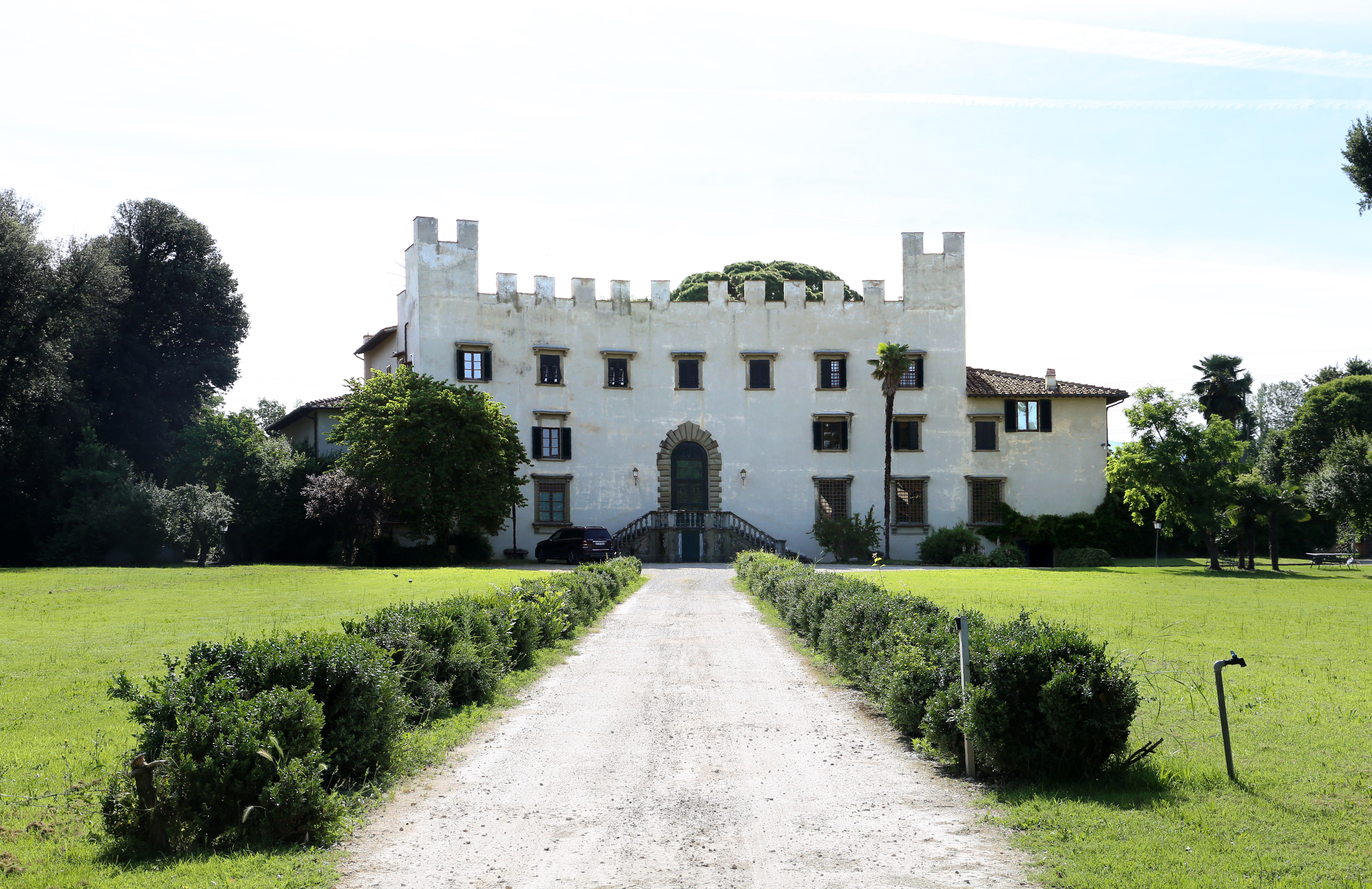 Castello di Bisarno